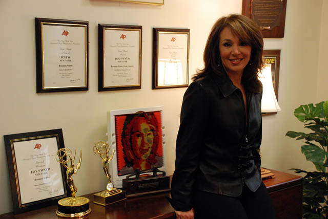 FOX 5 Anchor